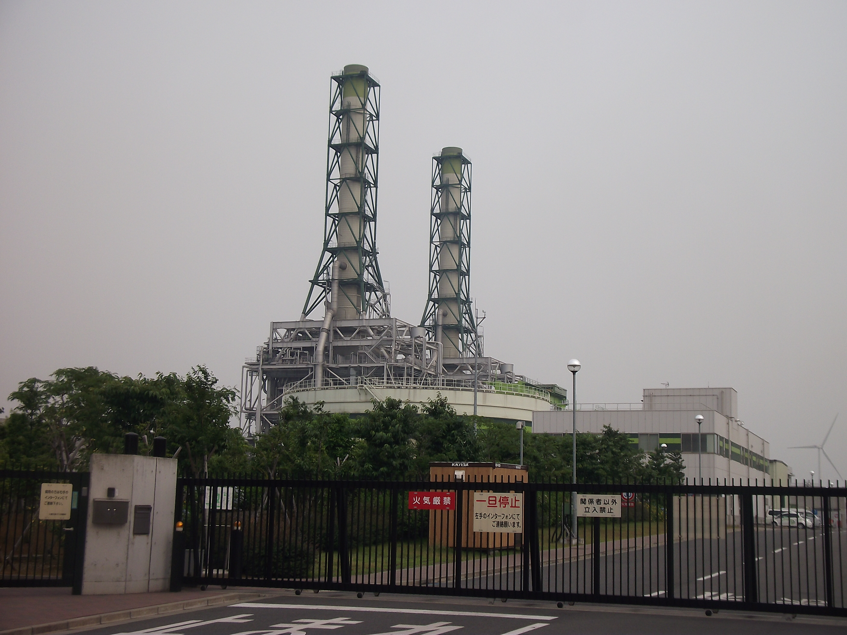 Kawasaki natural gas power plant.